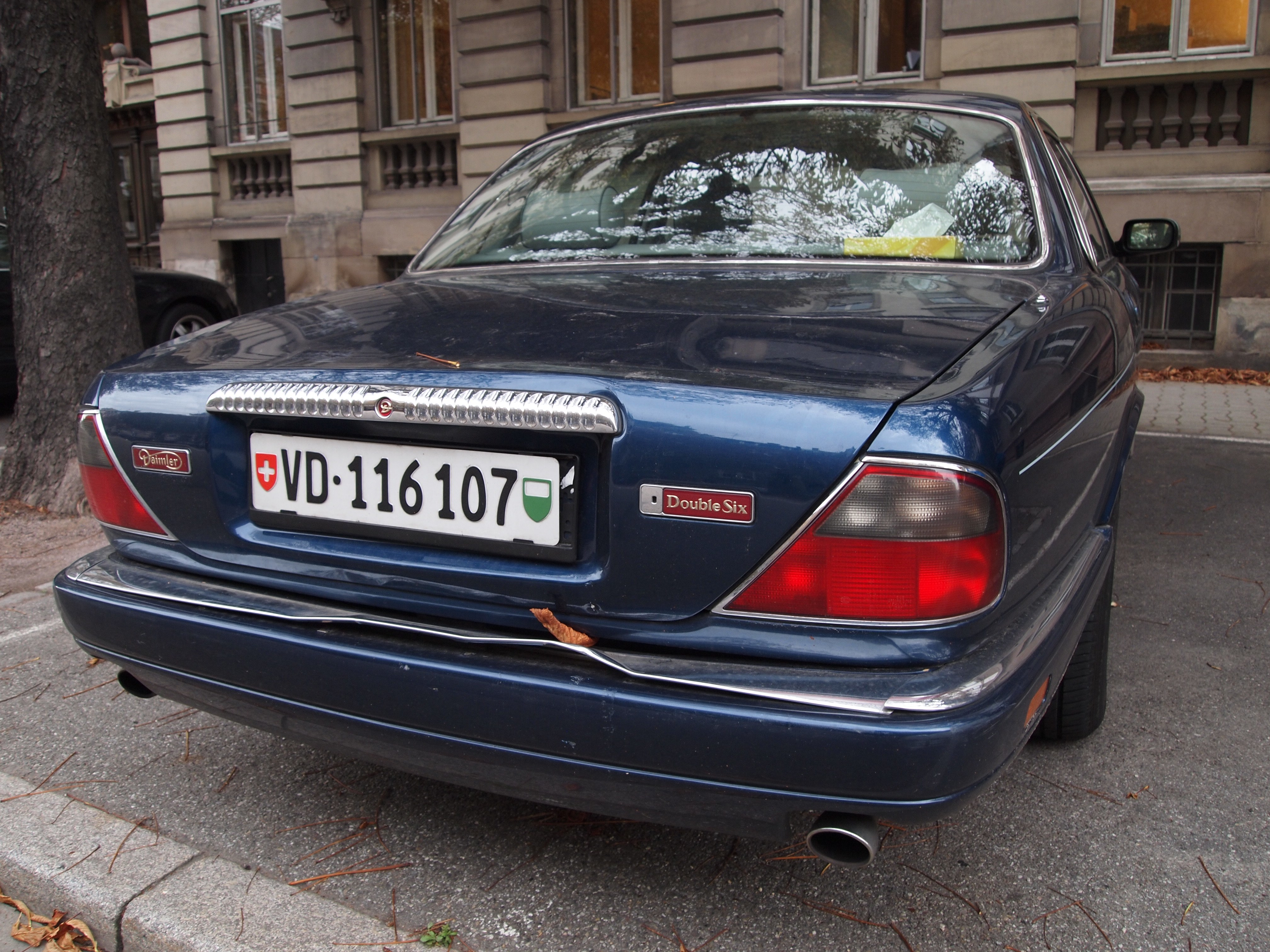 A Daimler Double-Six car, in the look from 1994 to 1997. Description in Wikipedia